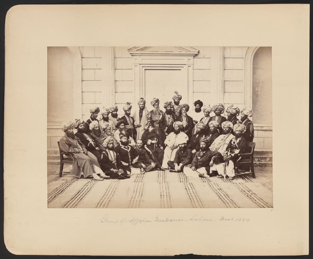 This 1880 photograph of a group of Afghan notables in Lahore is from an album of rare historical photographs depicting people and places associated with the Second Anglo-Afghan War. The Persian term durbar (darbar in Hindi) used in the caption describes a gathering of princes and other notables, usually for the purposes of state administration and business. In this durbar two British officers are present, one on the floor to the left of center and the other behind him, suggesting that they might have been cooperating with the Afghan attendees in some way. The Second Anglo-Afghan War began in November 1878 when Great Britain, fearful of what it saw as growing Russian influence in Afghanistan, invaded the country from British India. The first phase of the war ended in May 1879 with the Treaty of Gandamak, which permitted the Afghans to maintain internal sovereignty but forced them to cede control over their foreign policy to the British. Fighting resumed in September 1879, after an anti-British uprising in Kabul, and finally concluded in September 1880 with the decisive Battle of Kandahar. The album includes portraits of British and Afghan leaders and military personnel, portraits of ordinary Afghan people, and depictions of British military camps and activities, structures, landscapes, and cities and towns. The sites shown are all located within the borders of present-day Afghanistan or Pakistan (a part of British India at the time). About a third of the photographs were taken by John Burke (circa 1843–1900), another third by Sir Benjamin Simpson (1831–1923), and the remainder by several other photographers. Some of the photographs are unattributed. The album possibly was compiled by a member of the British Indian government, but this has not been confirmed. How it came to the Library of Congress is not known. Afghan Wars; Government officials; Group portraits; Military officers; Portrait photographs